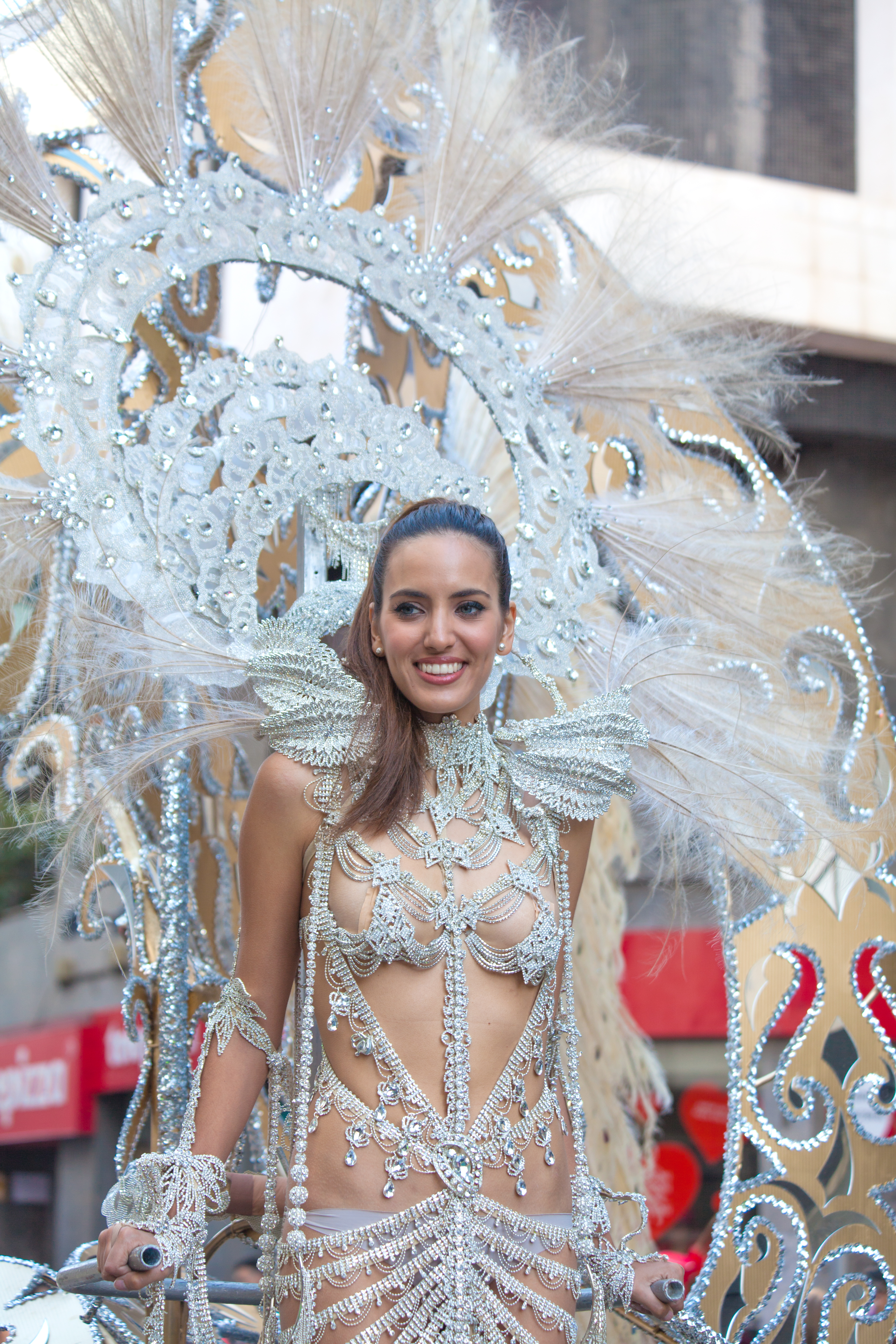 LAS PALMAS - February 14: Carnival queen heads the main parade, February 14, 2015 in Las Palmas, Gran Canaria, Spain This is a photography of a Folklore festival in Spain (Wikidata id Q5044119).